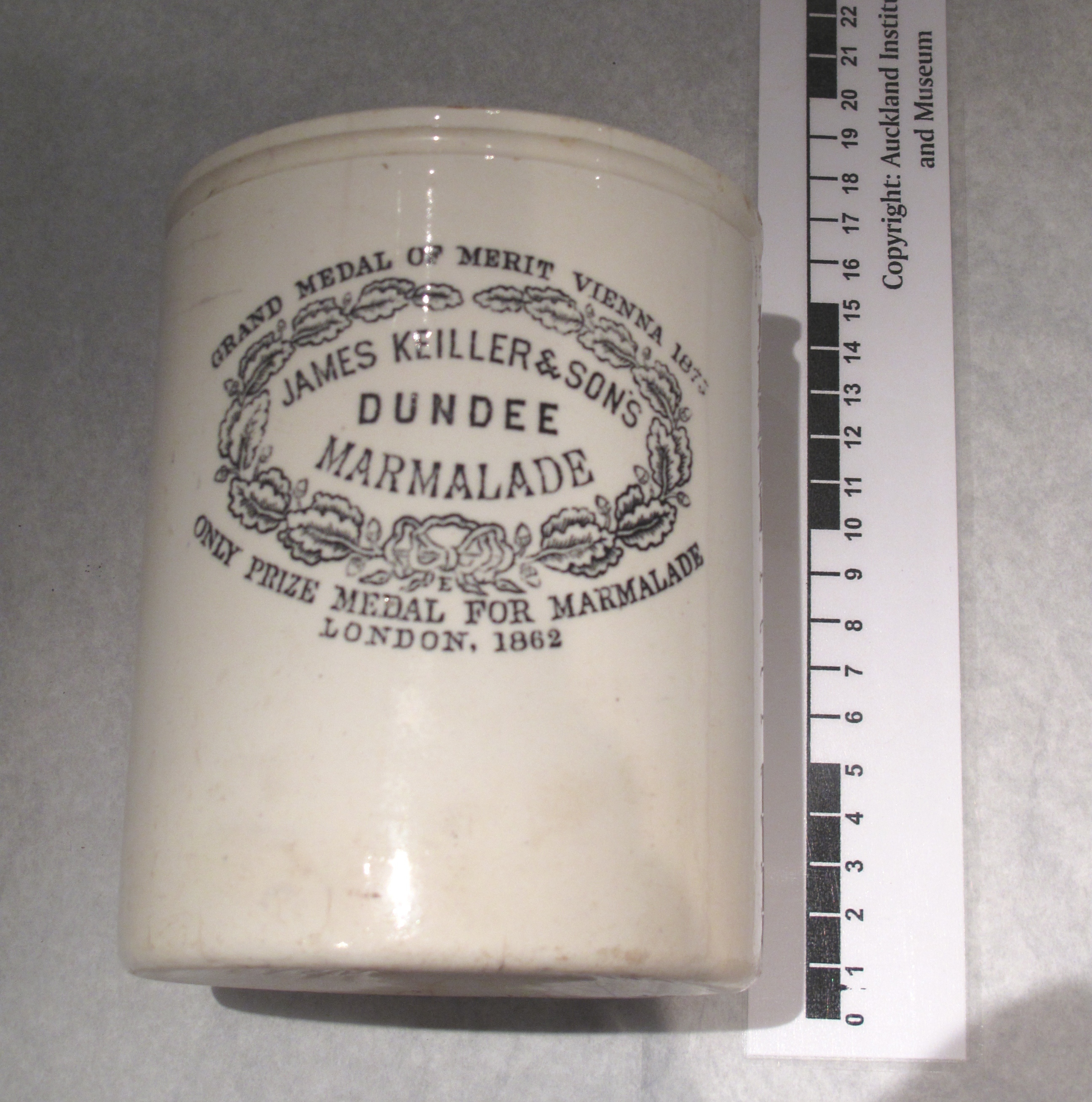 Jar, preserve; cream ceramic marmalade jar; inscription on side